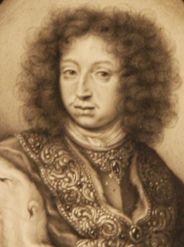 Portrait of king Karl XI of Sweden